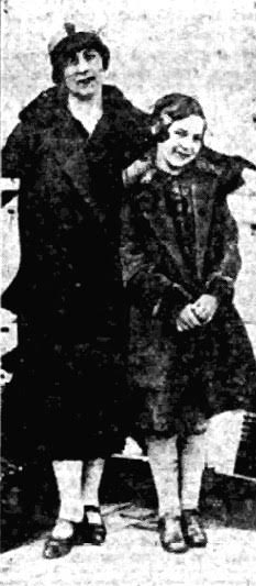 Photo of Ida Silverman and her daughter from a 1925 copy of The Evening News, Harrisburg, Pennsylvania. They were sailing from New York to Palestine.